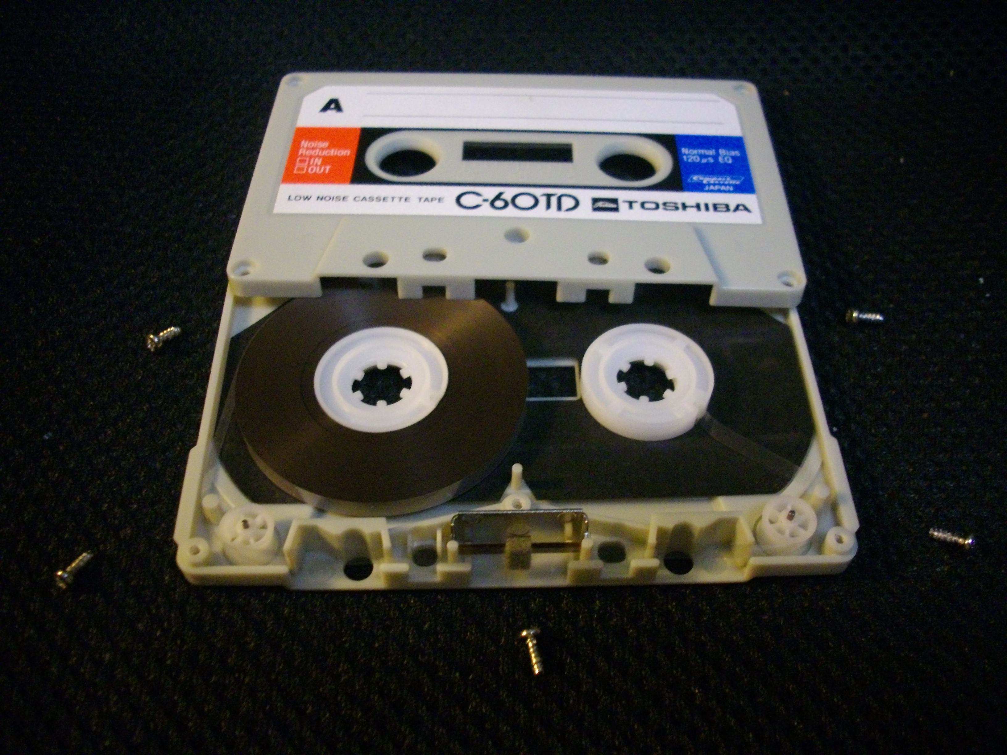 Internal features of a standard audio cassette ("Compact Cassette"). This is a Toshiba C-60TD (one-hour) cassette.